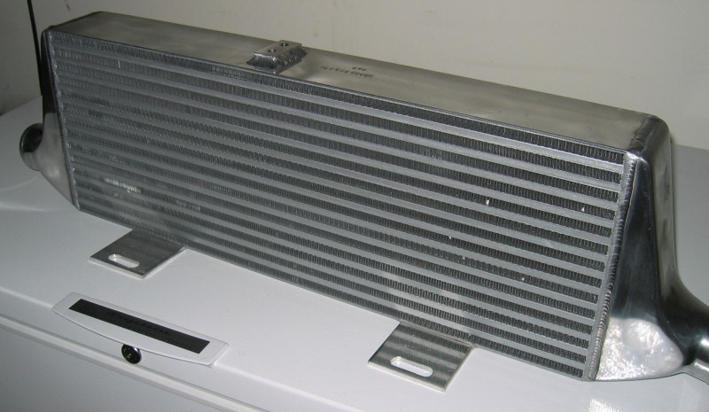 Exterior view of an intercooler.